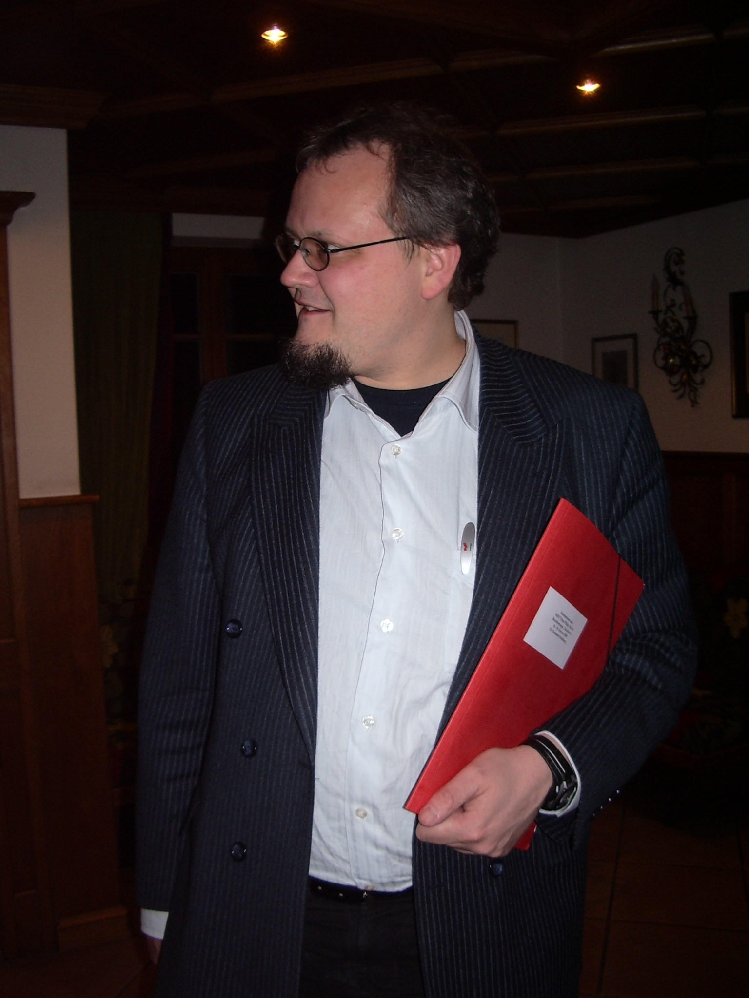 Tobias Pflüger, MEP, in Kehl-Kork